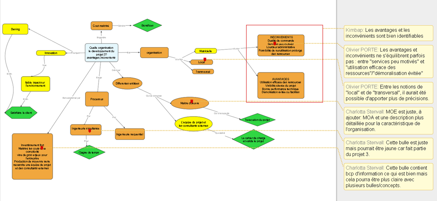 peer evaluation of a concept map